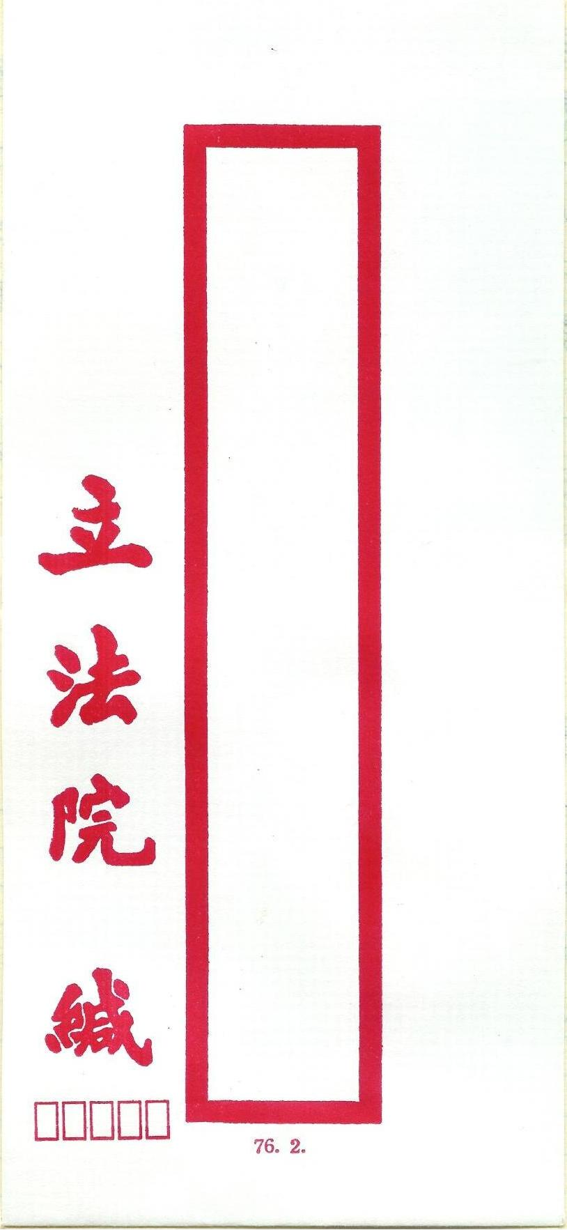 A Chinese-style envelope used in Taiwan and printed for official use by the Legislative Yuan. The red box in the center is for the name of the recipient, written vertically in Chinese characters. The address is also written vertically to the right of the red box. The postal code is written in the boxes in the lower left-hand corner.